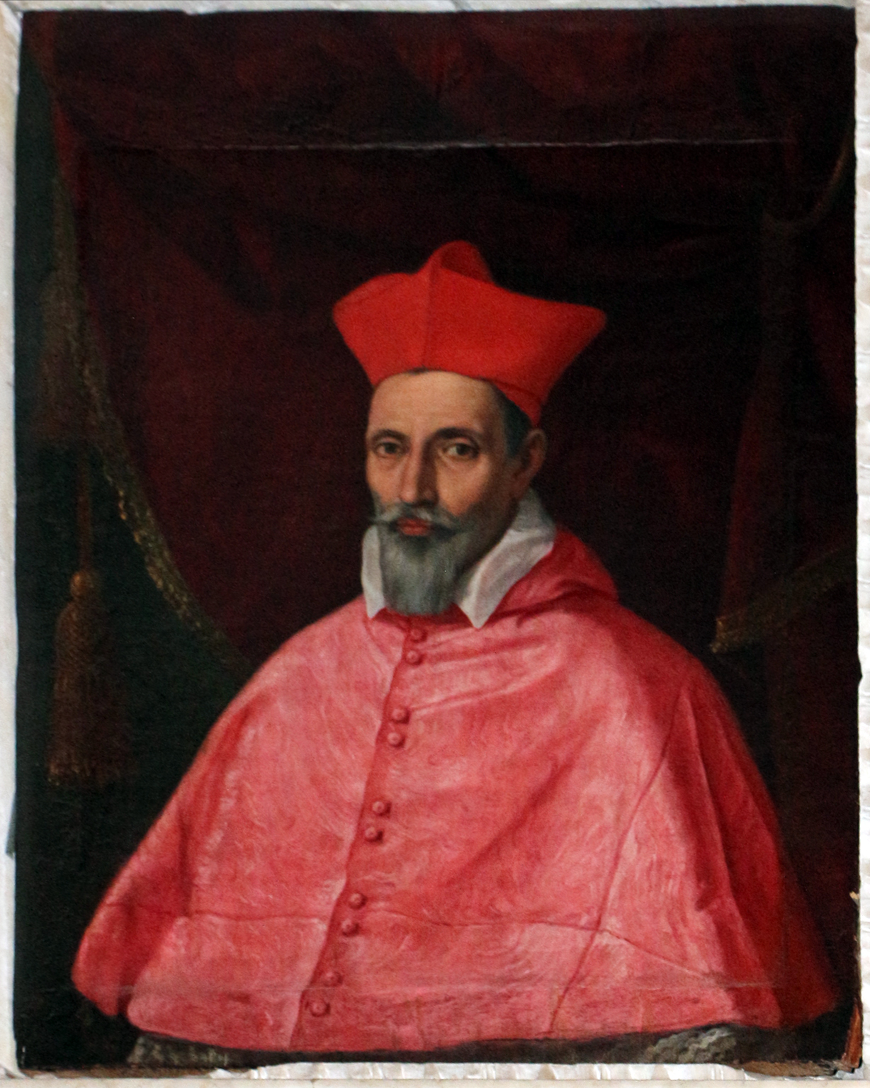 Santa Maria della Vittoria in Rome - Interior